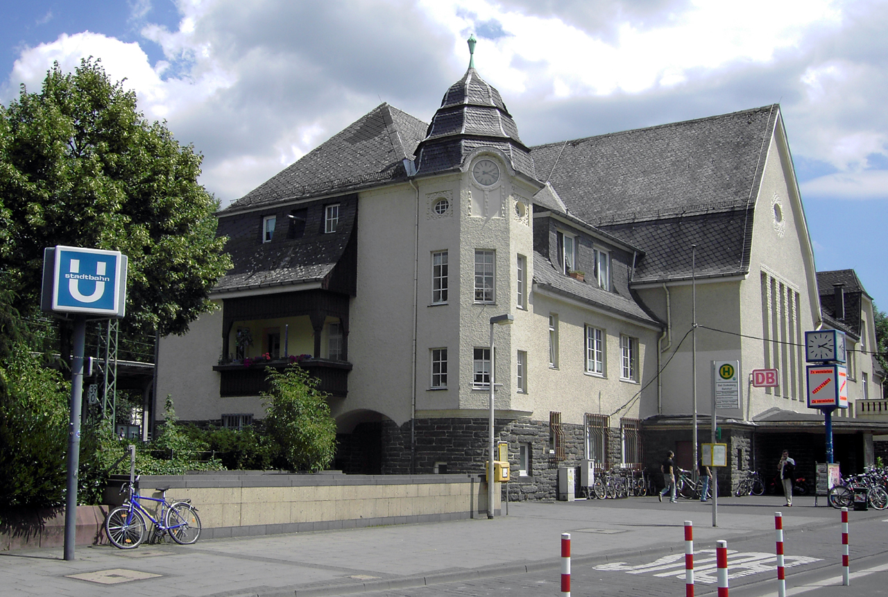 Train station Bonn-Bad Godesberg